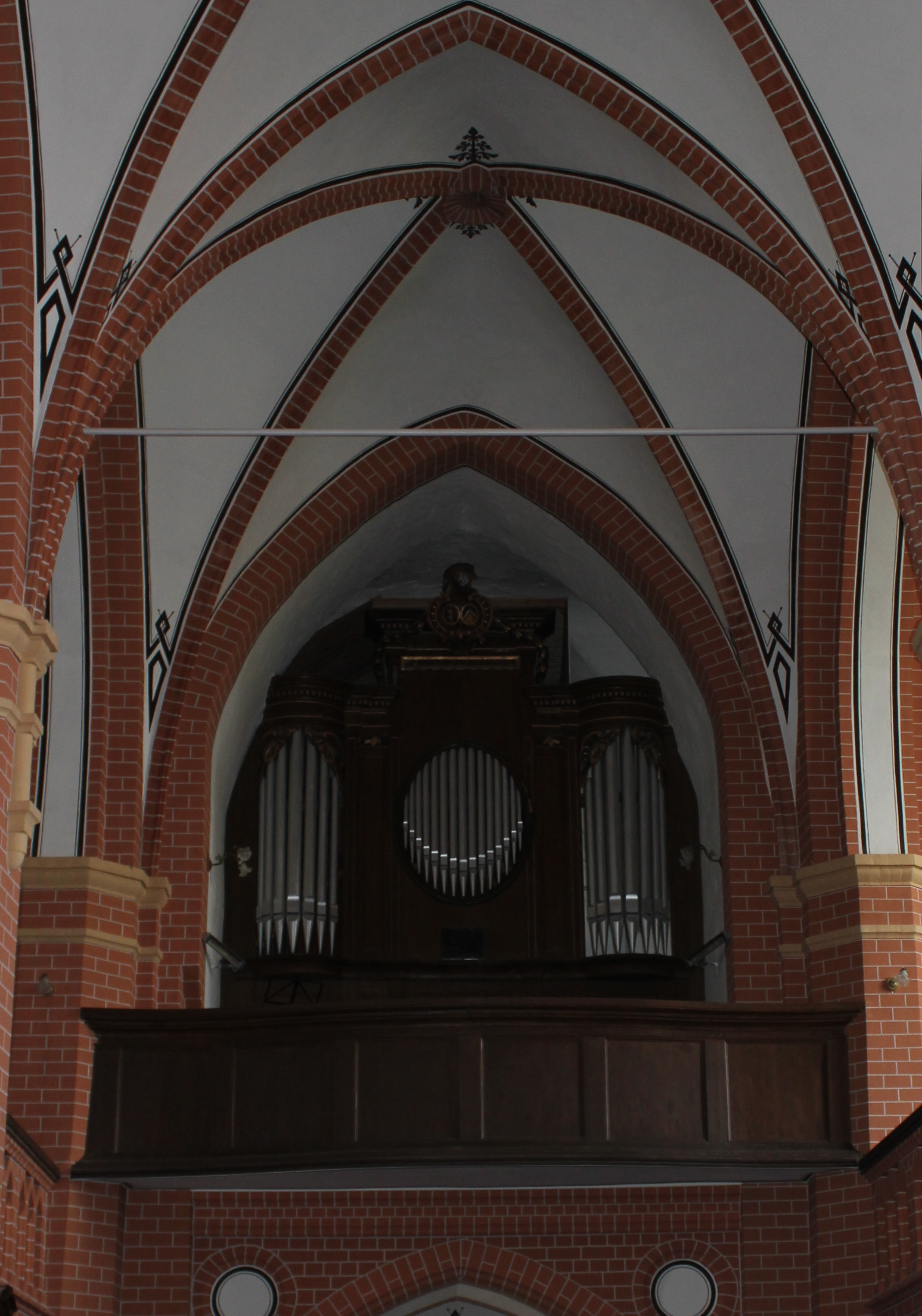 The organ of the church of Penzlin